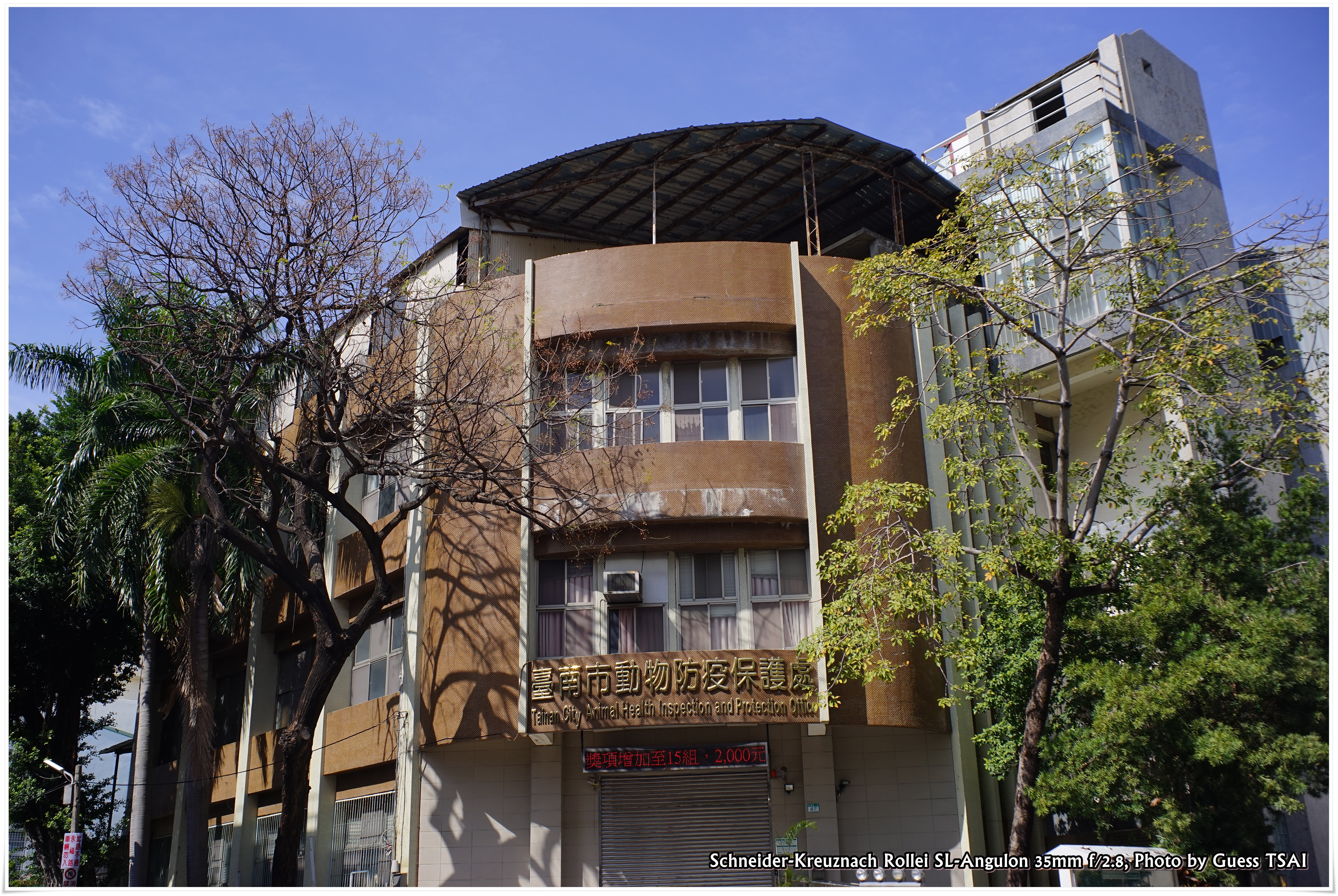 Jhongyi Office, Tainan City Animal Health Inspection and Protection Office. Address: No.87, Sec. 1, Jhongyi Rd., West Central Dist., Tainan City.